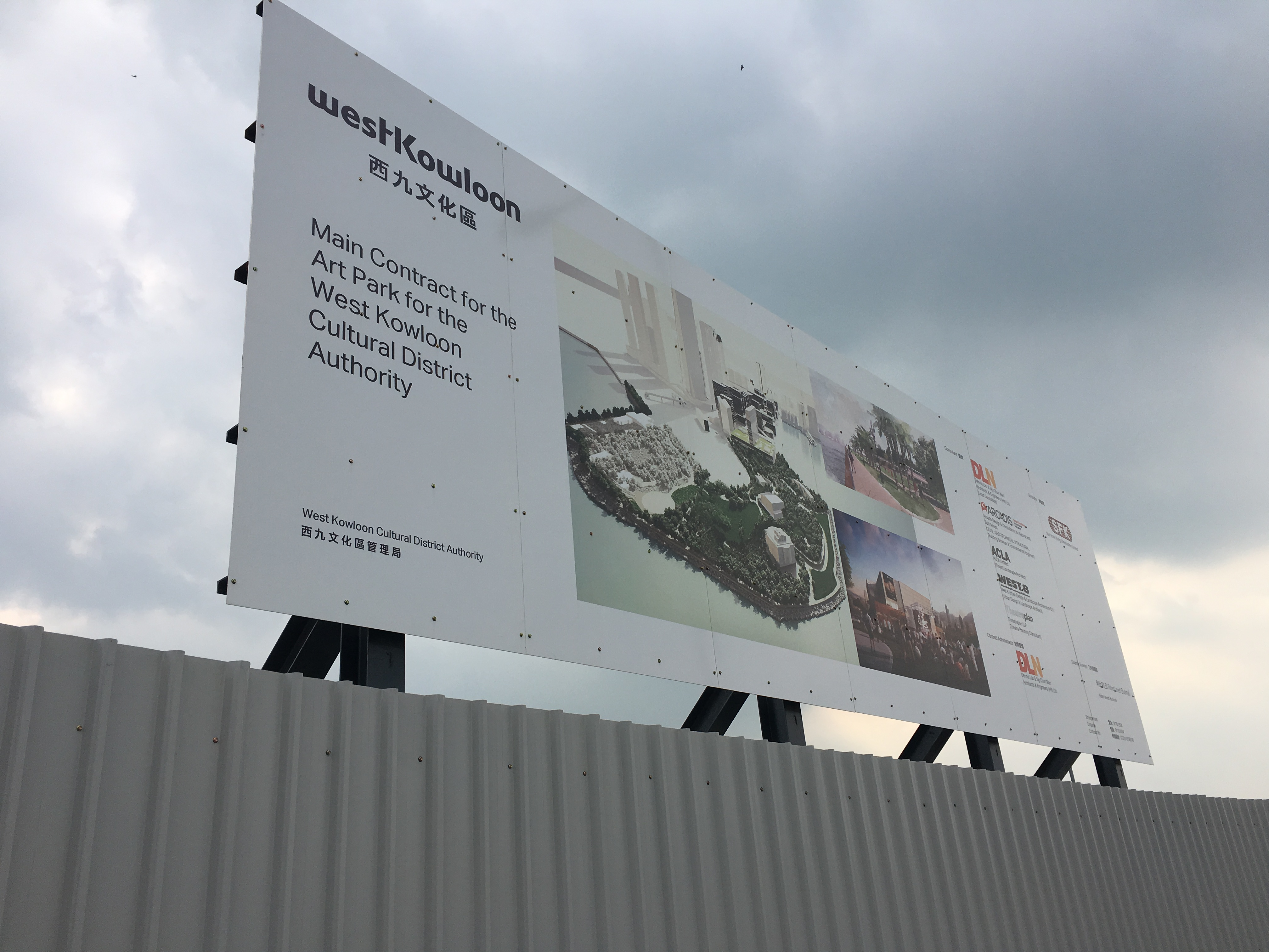 West Kowloon Cultural District Art Park Construction Site Board